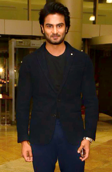 Indian film actor Sudheer Babu at Saina Nehwal's marriage reception in 2018.